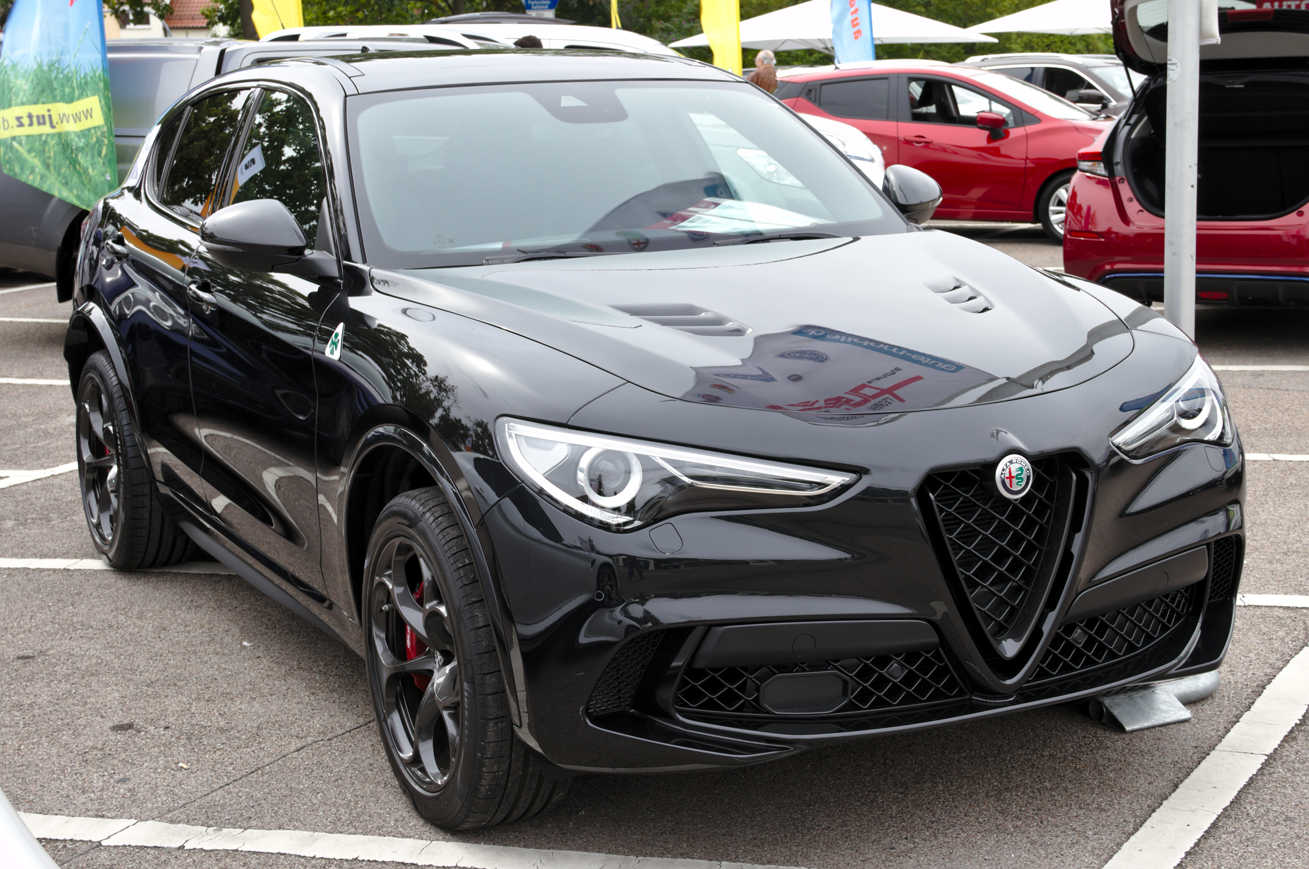 Alfa_Romeo_Stelvio_QV at Leonberger Autoschau 2019